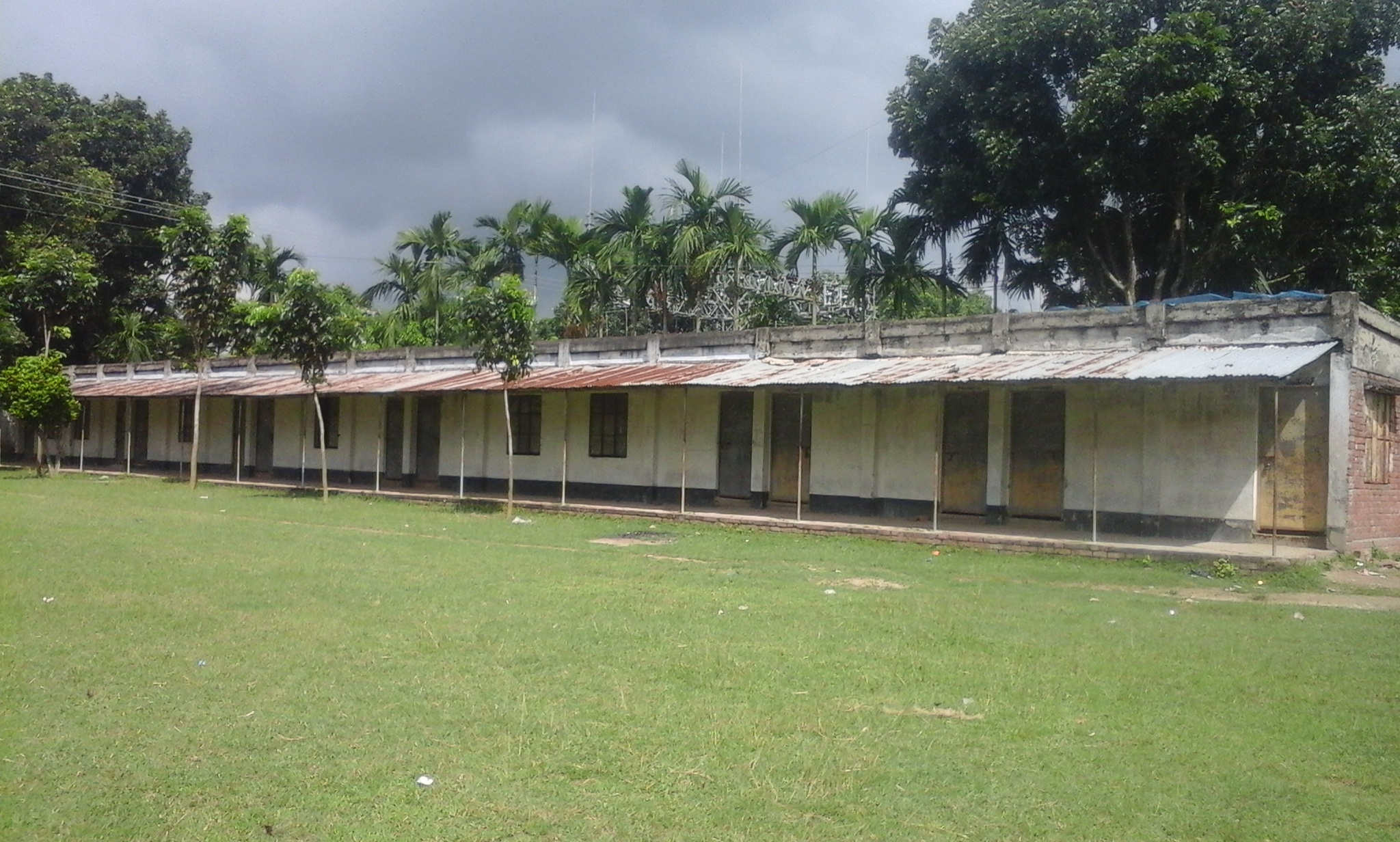 Older room of Uthali college.